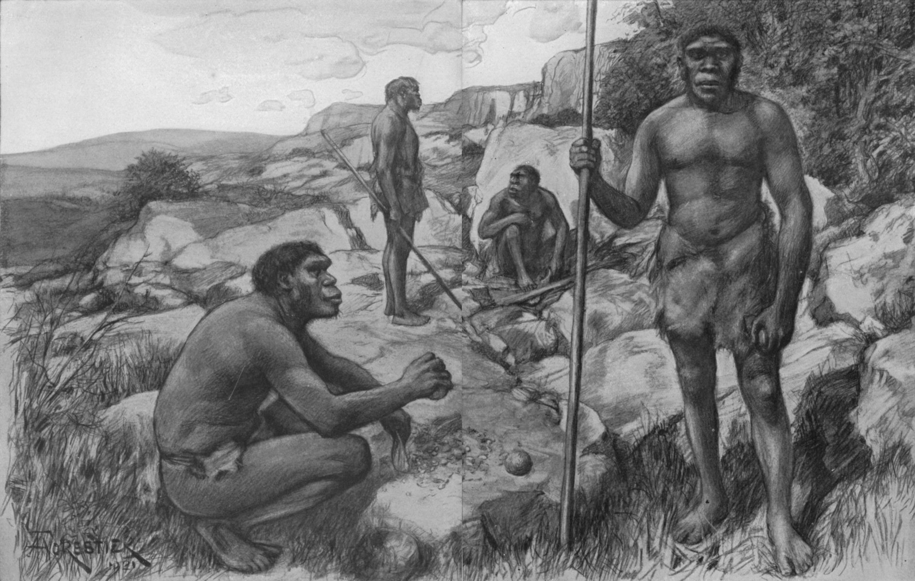 RESTORATION BY AMEDEE FORESTIER OF THE RHODESIAN MAN WHOSE SKULL WAS DISCOVERED IN 1921 Attention may be drawn to the beetling eyebrow ridges, the projecting upper lip, the large eye-sockets, the well-poised head, the strong shoulders. The squatting figure is crushing seeds with a stone, and a crusher is lying on the rock to his right. The figure in the foreground, holding a staff, shows the erect attitude and the straight legs. His left hand holds a flint implement. On the left, behind the sitting figure, is seen the entrance to the cave. This new Rhodesian cave-man may be regarded as a southern representative of a Neanderthal race, or as an extinct type intermediate between the Neanderthal Men and the Modern Man type.